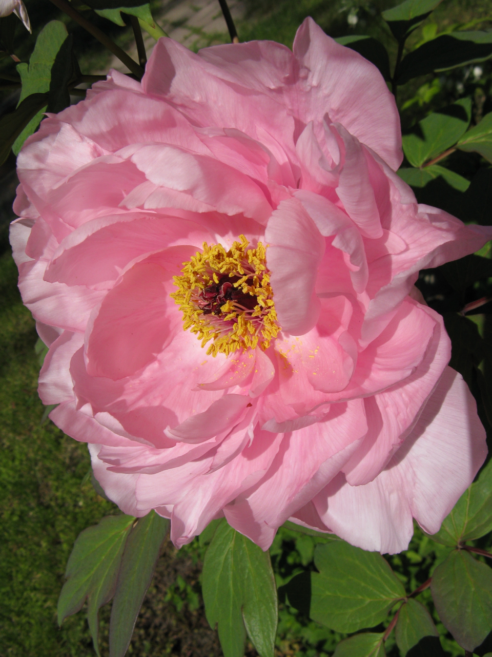 Paeonia 'First Arrival', Toronto, Canada